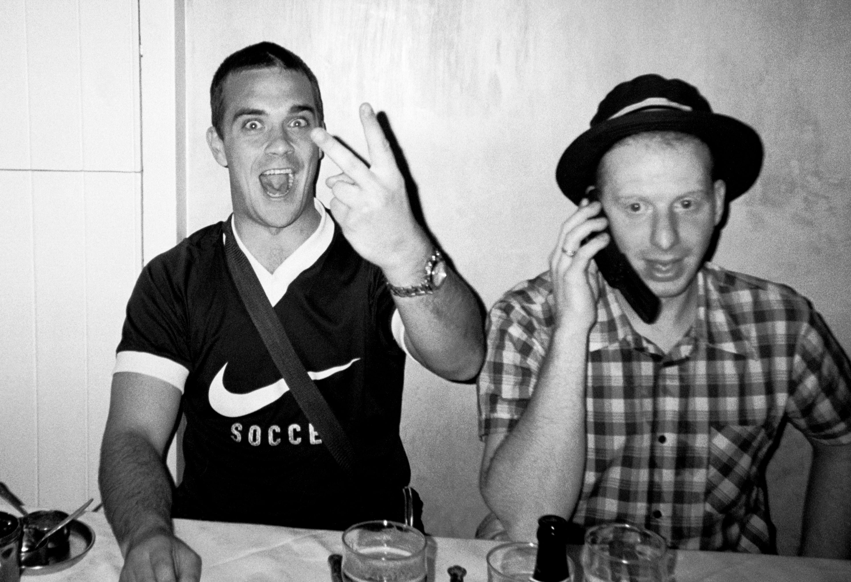 Example of photographs included in Henry Bond's 2000 photo-book "Point and Shoot" the photograph depicts Singer/entertainer Robbie Williams using a "V sign" hand gesture to the photographer.